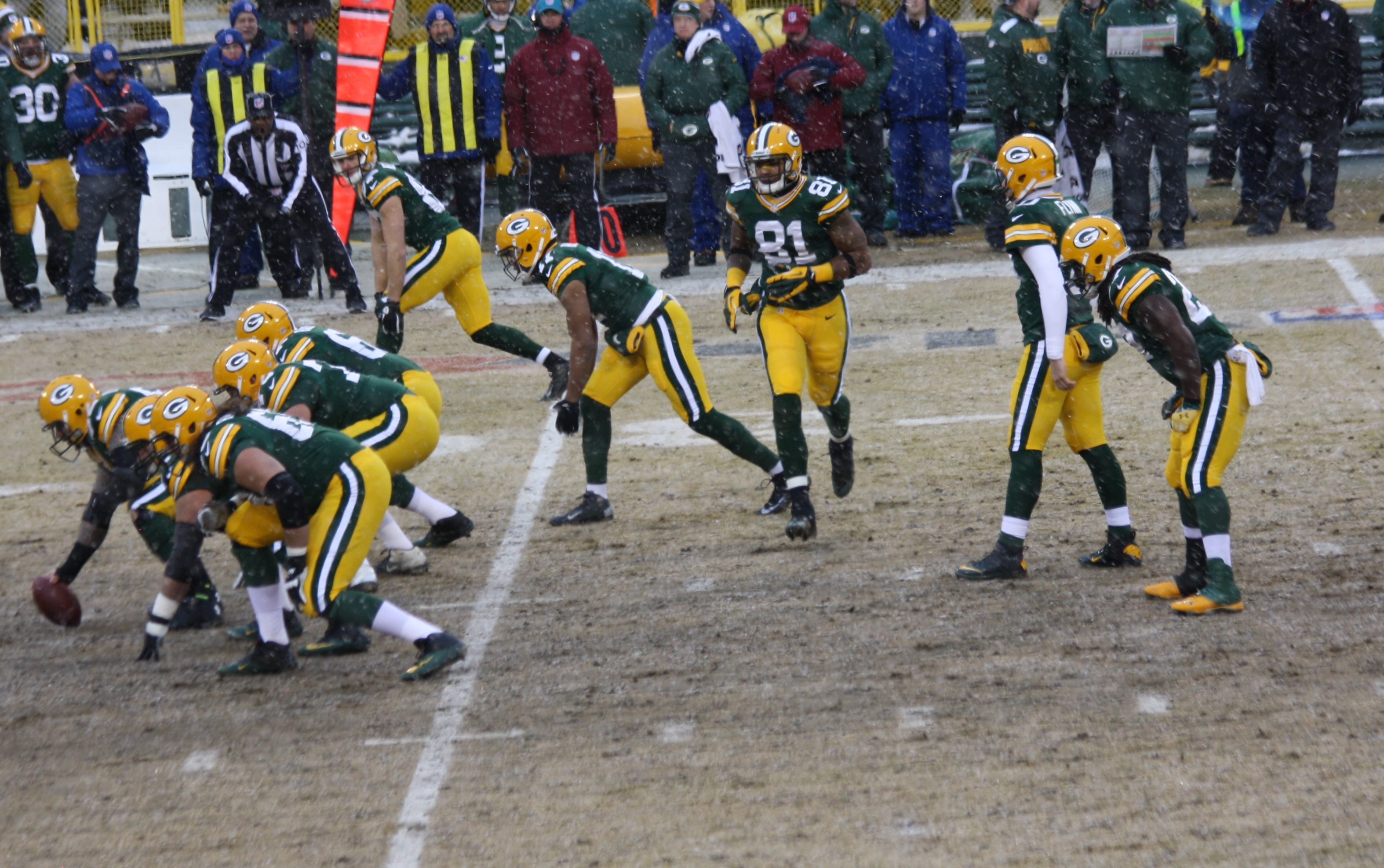 Green Bay Packers offensive players lined up for quarterback Matt Flynn (second from right) against the Pittsburgh Steelers. The rightmost player is #27 Eddie Lacy, the leftmost player is center Evan Dietrich Smith, and the player jogging toward the camera in the middle is #81 Andrew Quarless.